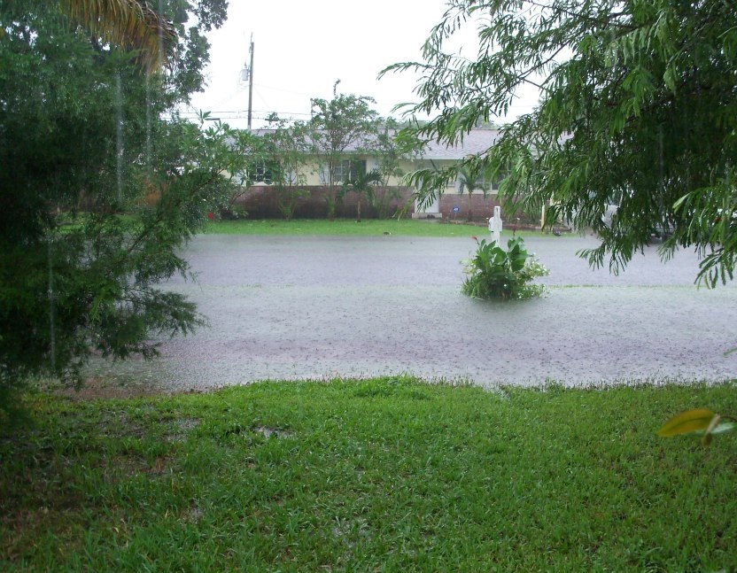 Flooding from Tropical Storm Isaac in a residential area of Palm Springs, Florida. Taken on August 27, 2012.